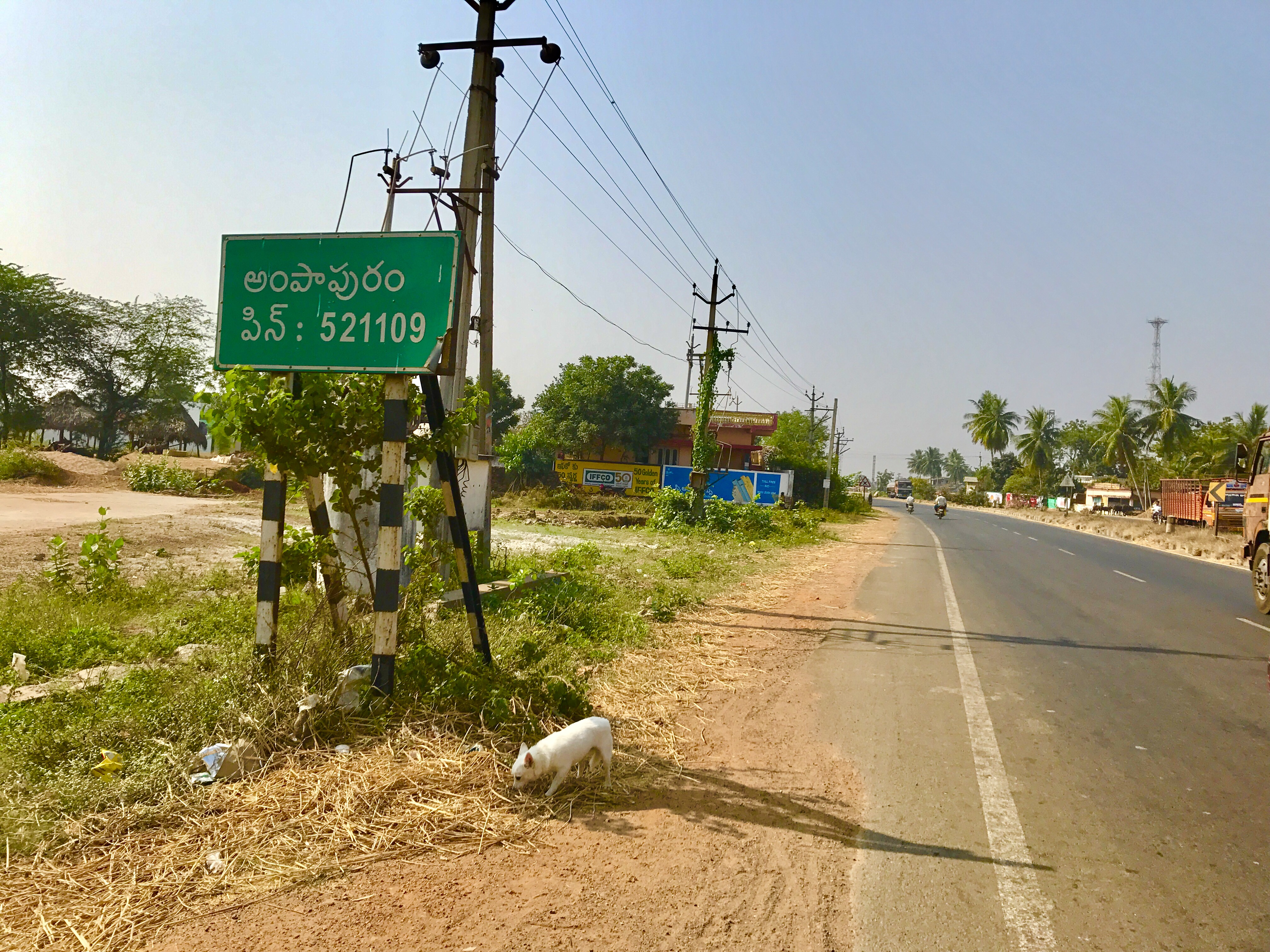 Ampapuram village sign board